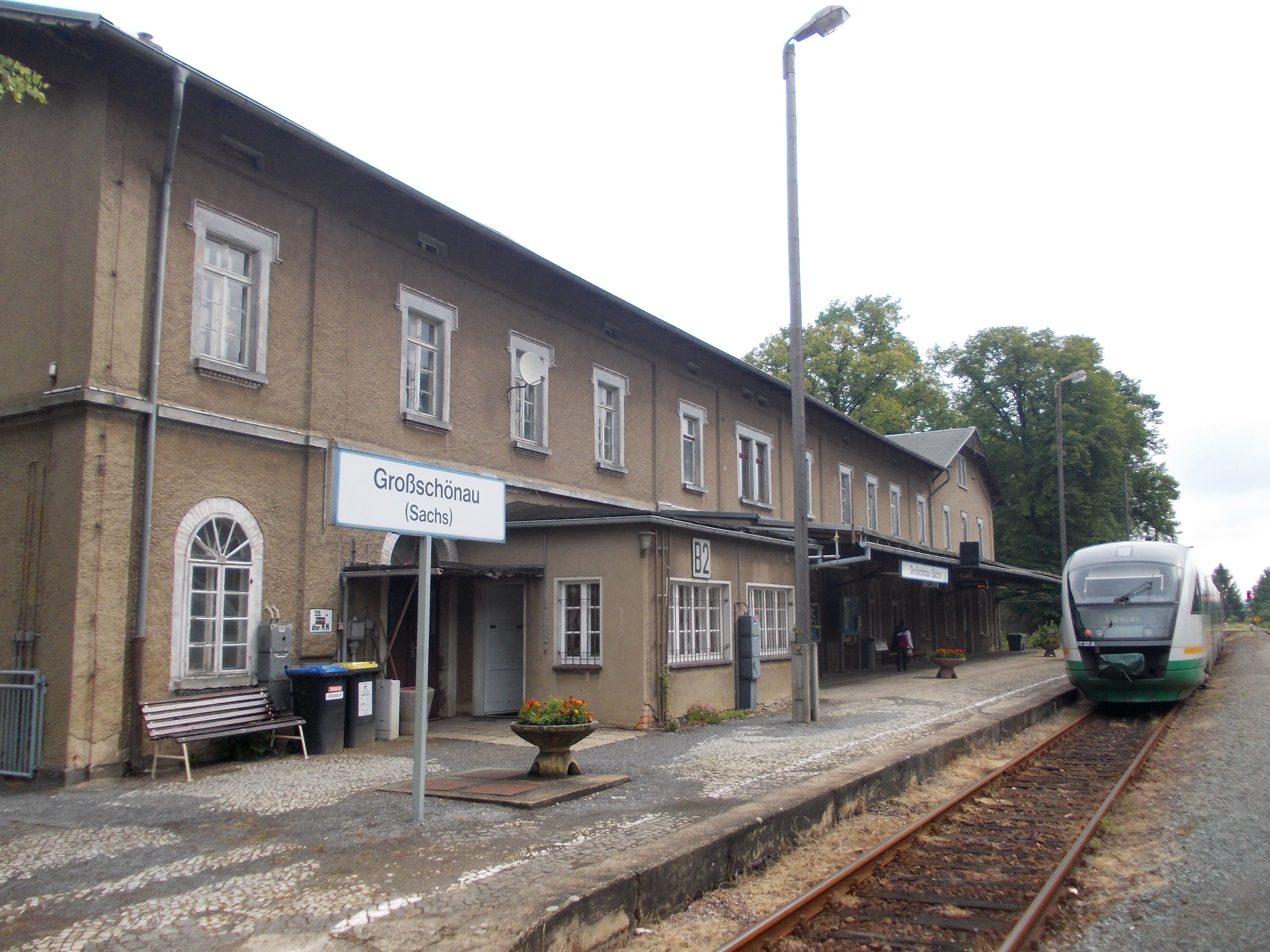 Grossschönau train station (Görlitz district, Saxony)